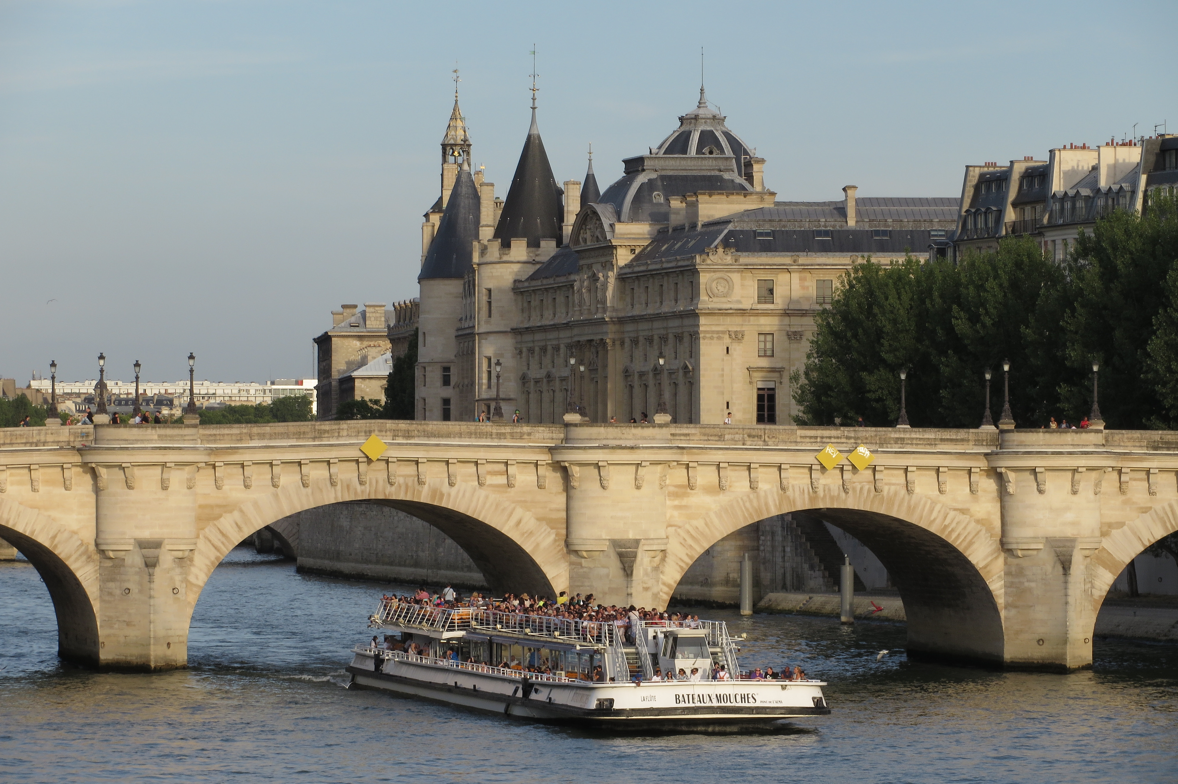 Pont Neuf, Court of Cassation, Paris and Bateau-Mouche La Flute